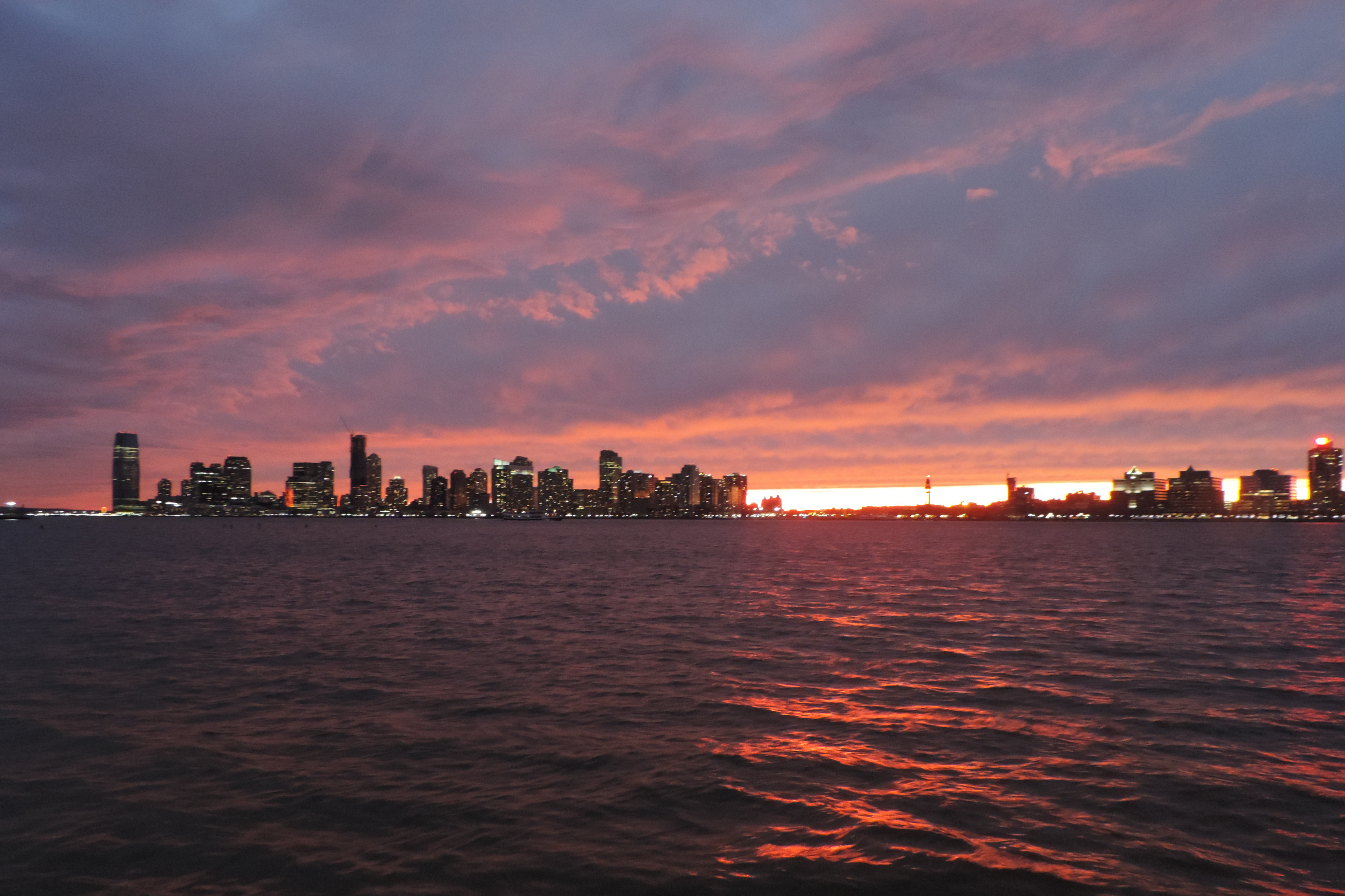 Jersey City, seen from Greenwich Village